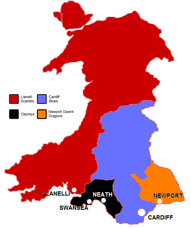 I created this myself based on :Image:WalesNumbered.png